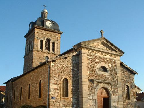 saint genis les ollieres church